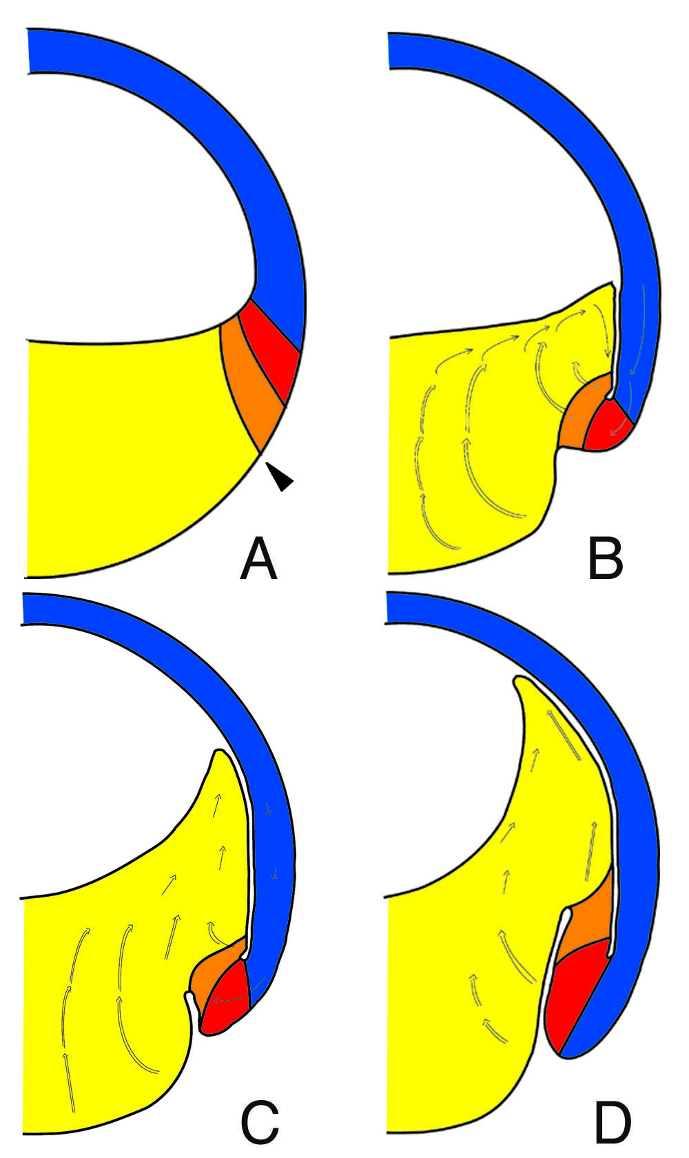 Cartoon depicting the movements associated with vegetal rotation. (A) Early stage 10 blastula just prior to gastrulation. (B) Late stage 10 gastrula. (C) Stage 10.5. (D) Stage 11. Blue, animal cap ectoderm; yellow, vegetal endoderm; red, Xbra-expressing mesoderm; orange, goosecoid-expressing mesoderm, arrowhead, site of blastopore formation. Double arrows show active movements; single arrows, passive movement. Adapted from Winklbauer & Schürfeld (1999).